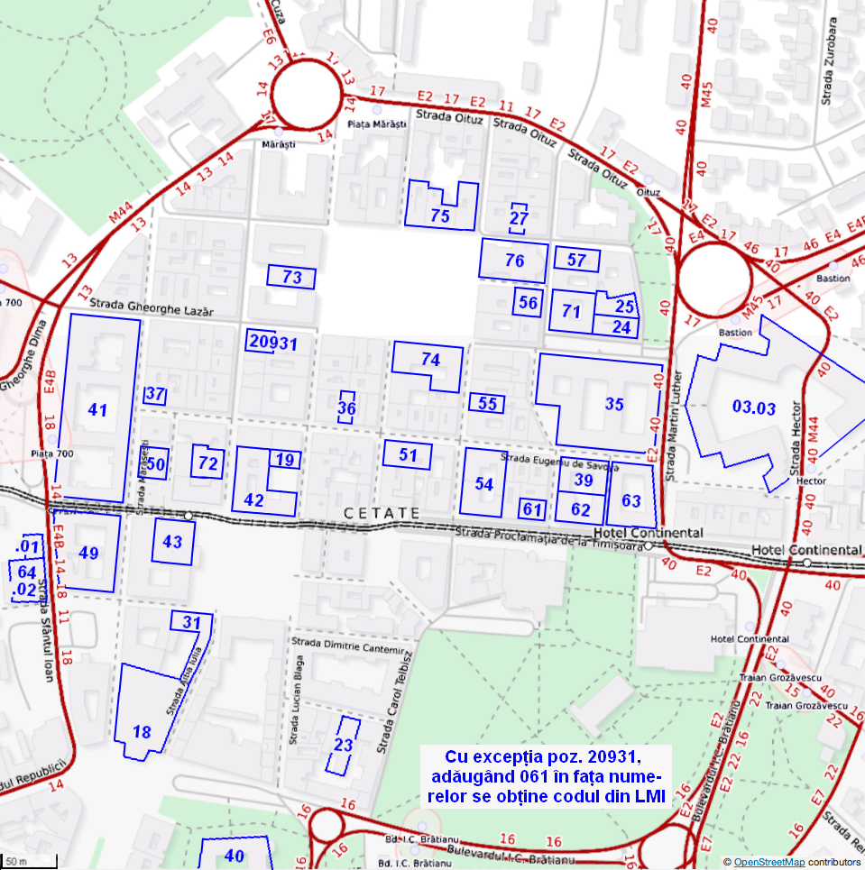 LMI items in Cetate, Timisoara, Romania